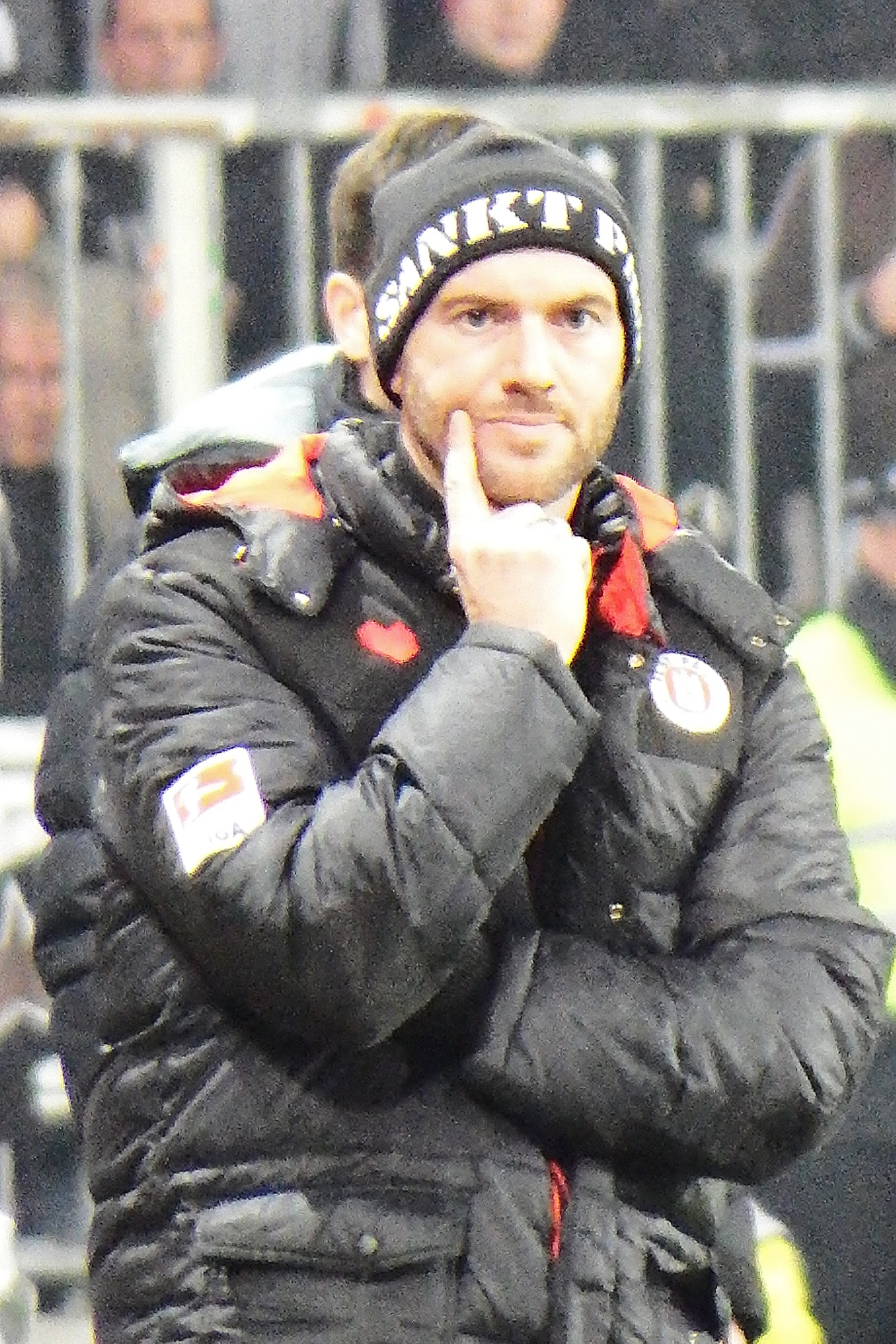 Roland Vrabec as Coach from FC St. Pauli